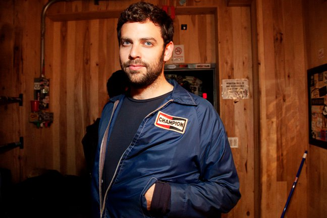 A photo of Barry Rothbart backstage